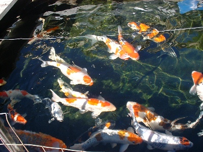 Koi in an outdoor pond.